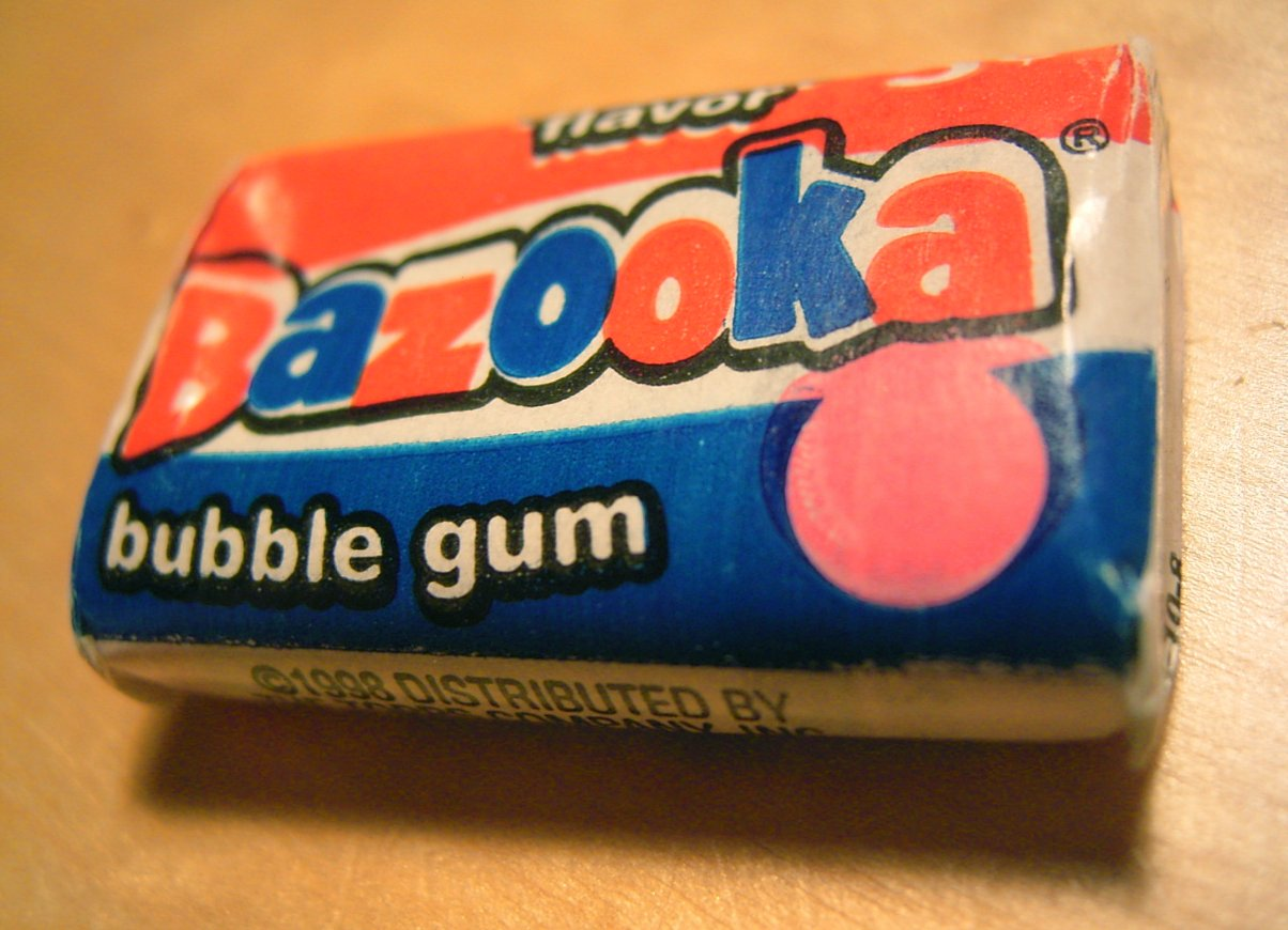 Bazooka gum